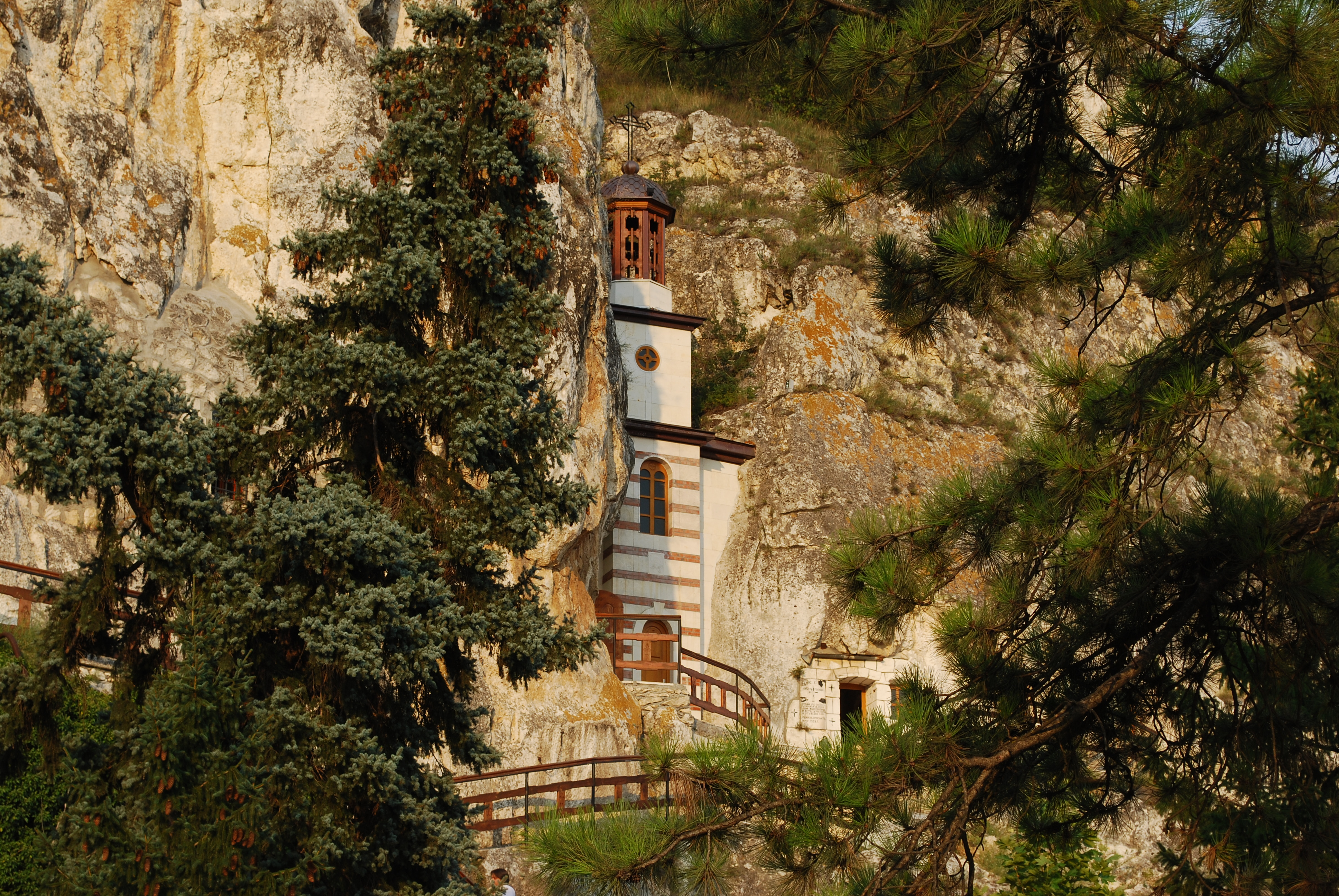 Dimitri Basarbov rock monastery in Basarbovo, Bulgaria